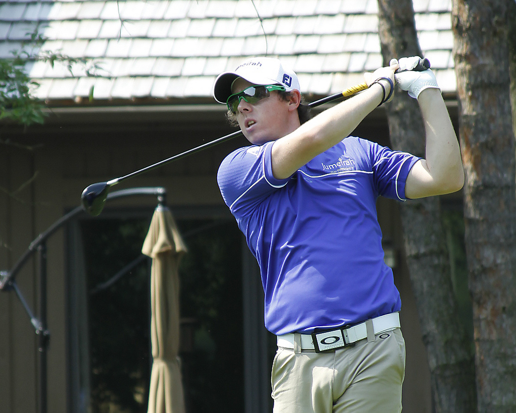 Rory McIlroy at The Memorial Tournament, Muirfield Village Golf Club, in Dublin, Ohio.